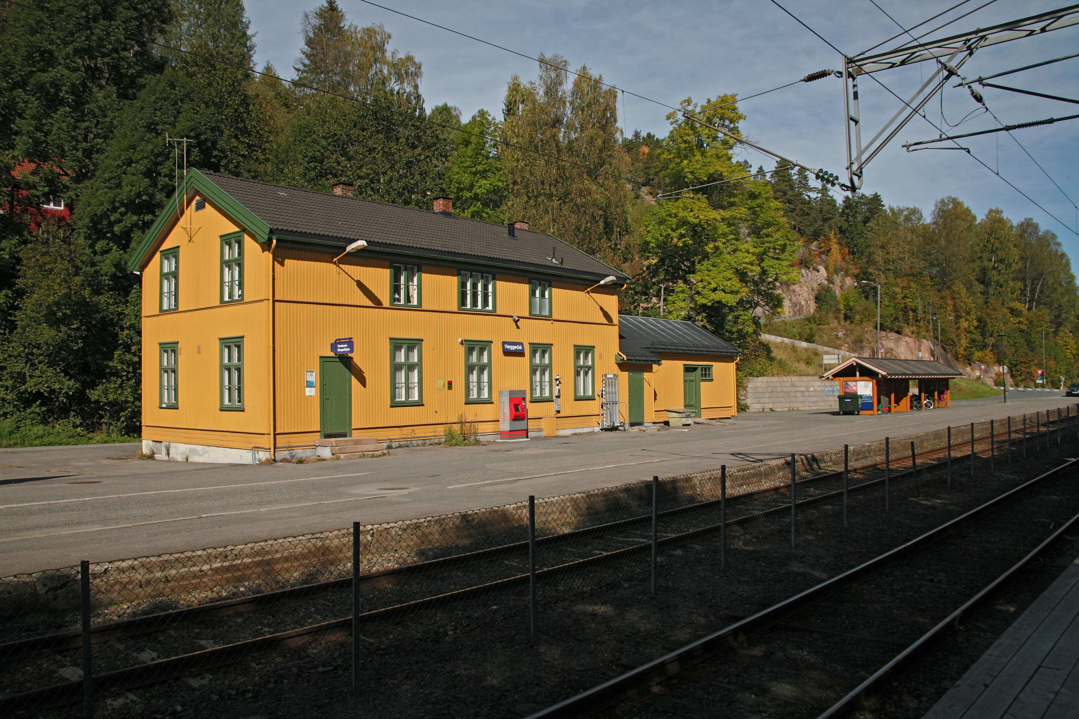 Picture of Heggedal Railway Station (Akershus - Norway)